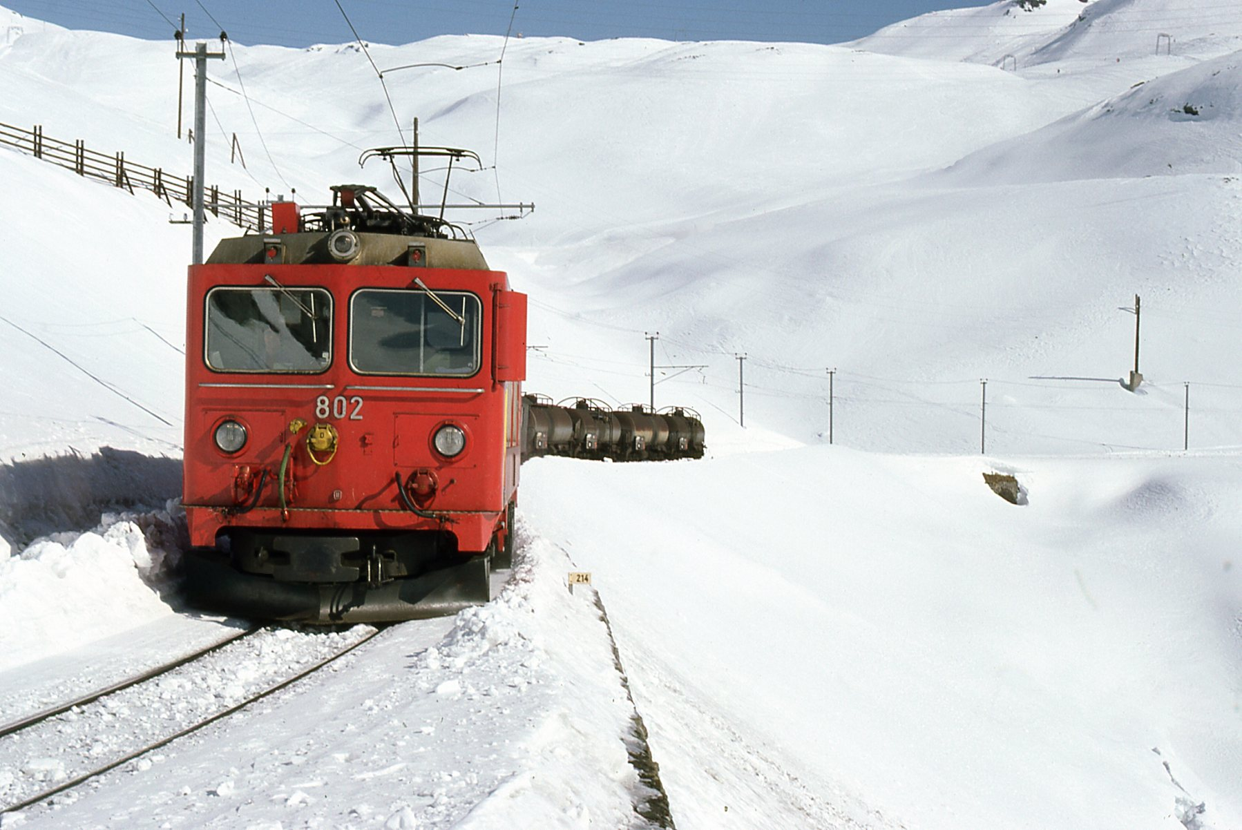 Gem 4/4 802 on the Bernina line.